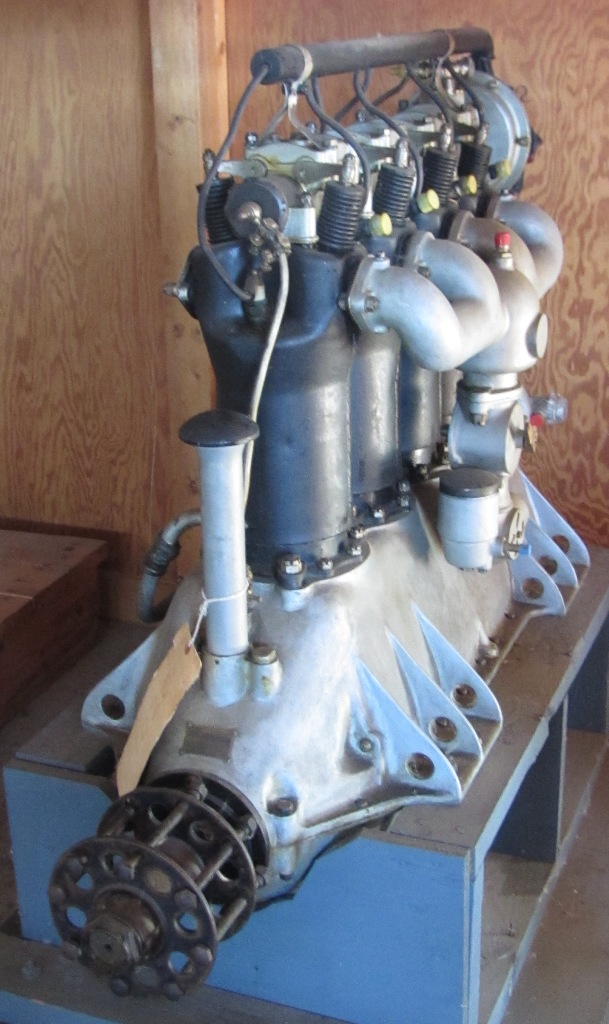 Hall-Scott L4 Aircraft Engine